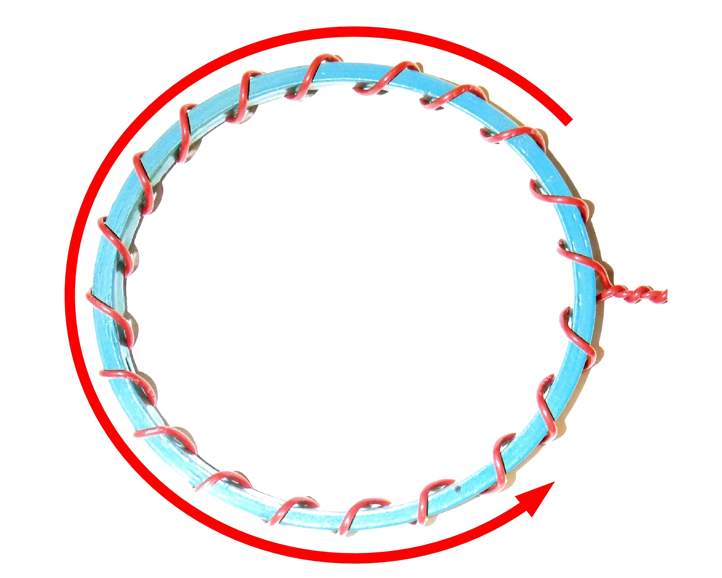 A simple winding on a toroidally shaped inductor gives rise to a circumferential current that causes a B field that is not contained to the winding.